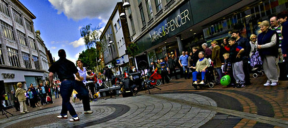 cropped version of original, focussing on street performers